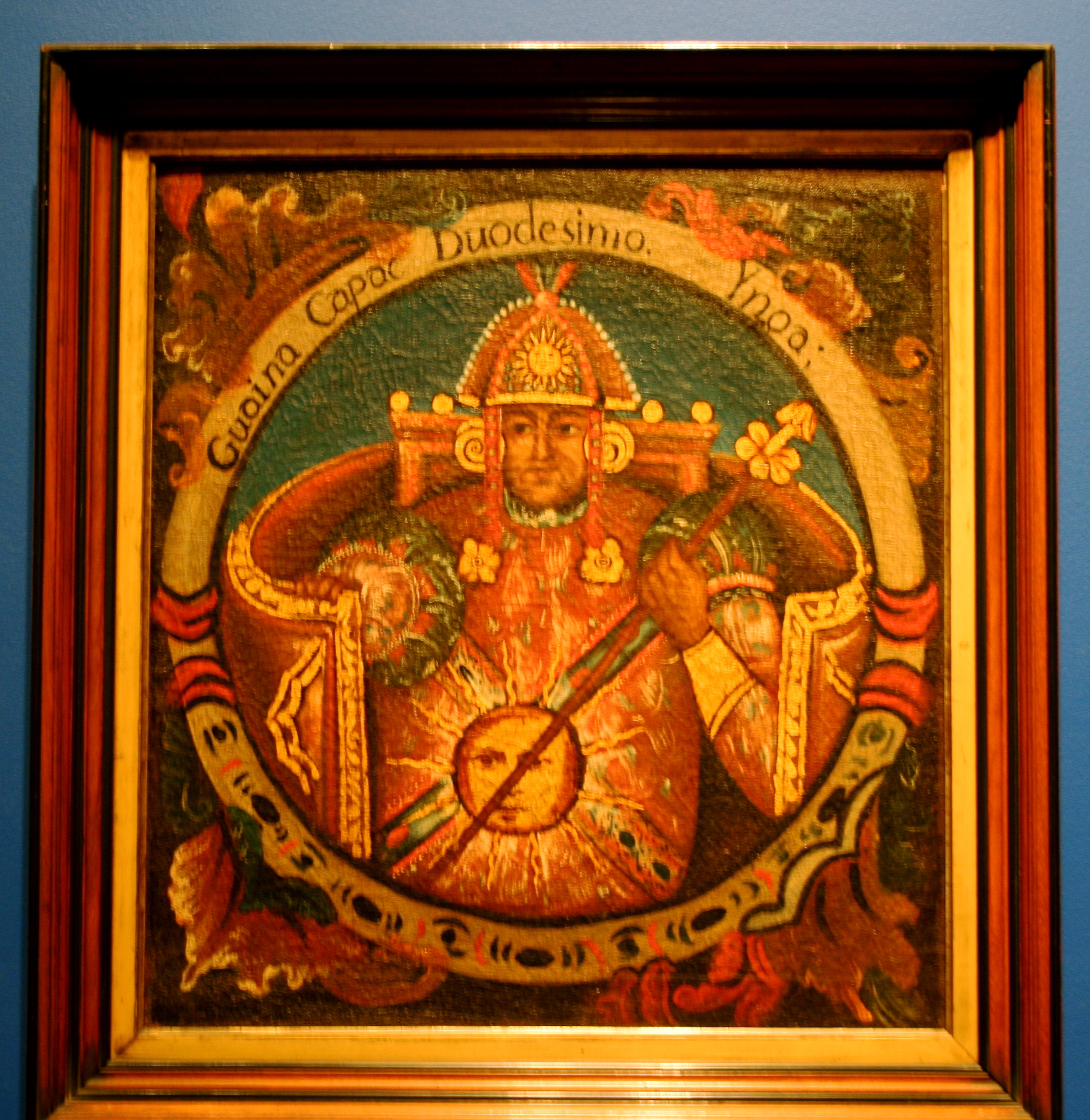 Huayca Capac, Twelfth Inca, mid 18th century. Oil on canvas, 23 1/2 x 21 1/2 in. (59.7 x 54.6 cm). Brooklyn Museum, Dick S. Ramsay Fund, Mary Smith Dorward Fund, Marie Bernice Bitzer Fund, Frank L. Babbott Fund; Gift of The Roebling Society and the American Art Council; purchased with funds given by an anonymous donor, Maureen and Marshall Cogan, Karen B. Cohen, Georgia and Michael deHavenon, Harry Kahn, Alastair B. Martin, Ted and Connie Roosevelt, Frieda and Milton F. Rosenthal, Sol Schreiber in memory of Ann Schreiber, Joanne Witty and Eugene Keilin, Thomas L. Pulling, Roy J. Zuckerberg, Kitty and Herbert Glantz, Ellen and Leonard L. Milberg, Paul and Thérèse Bernbach, Emma and J. A. Lewis, Florence R. Kingdon, 1995.29.12.